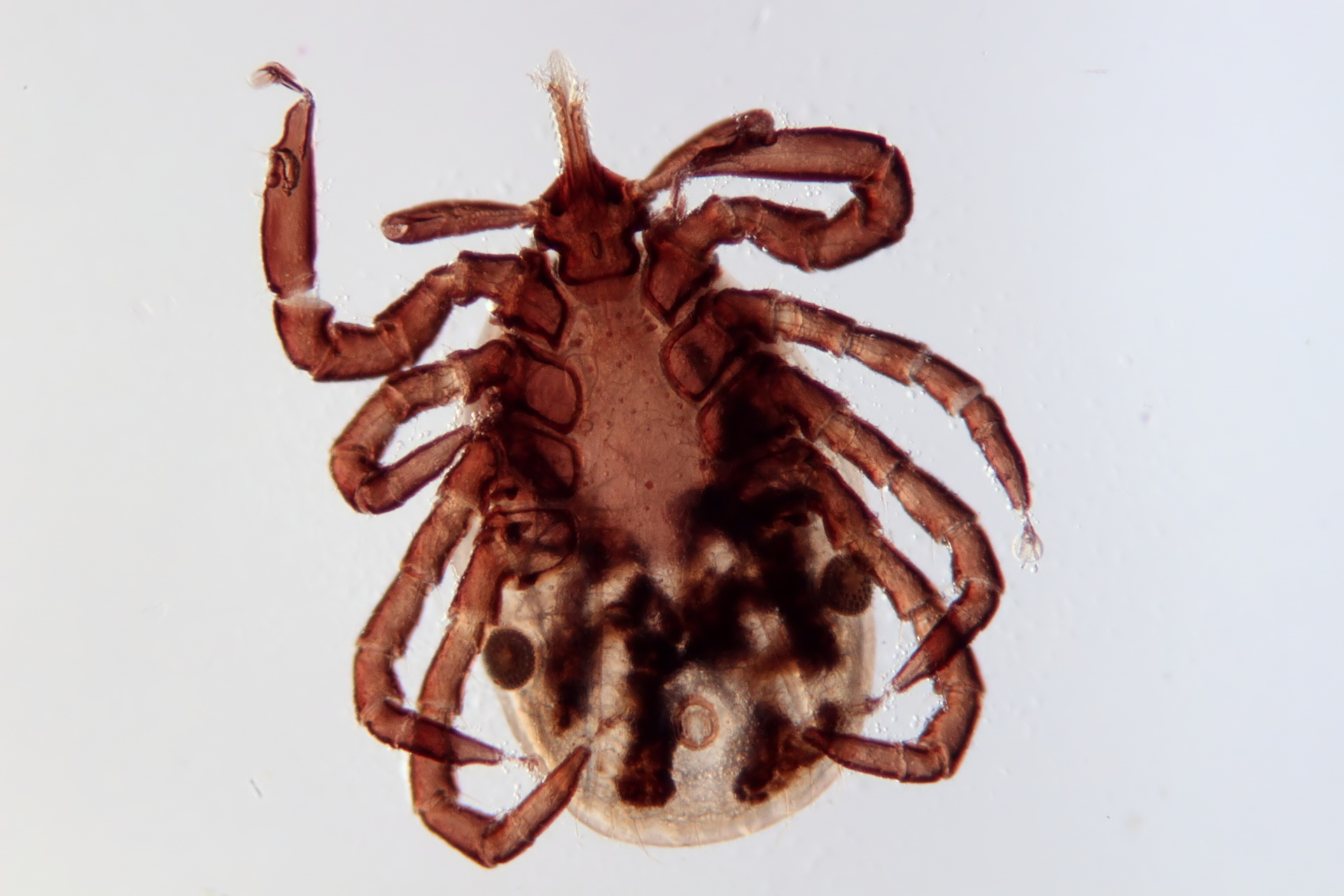 Ixodes ricinus